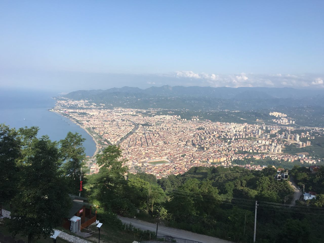 View of Ordu from Boztepe hill